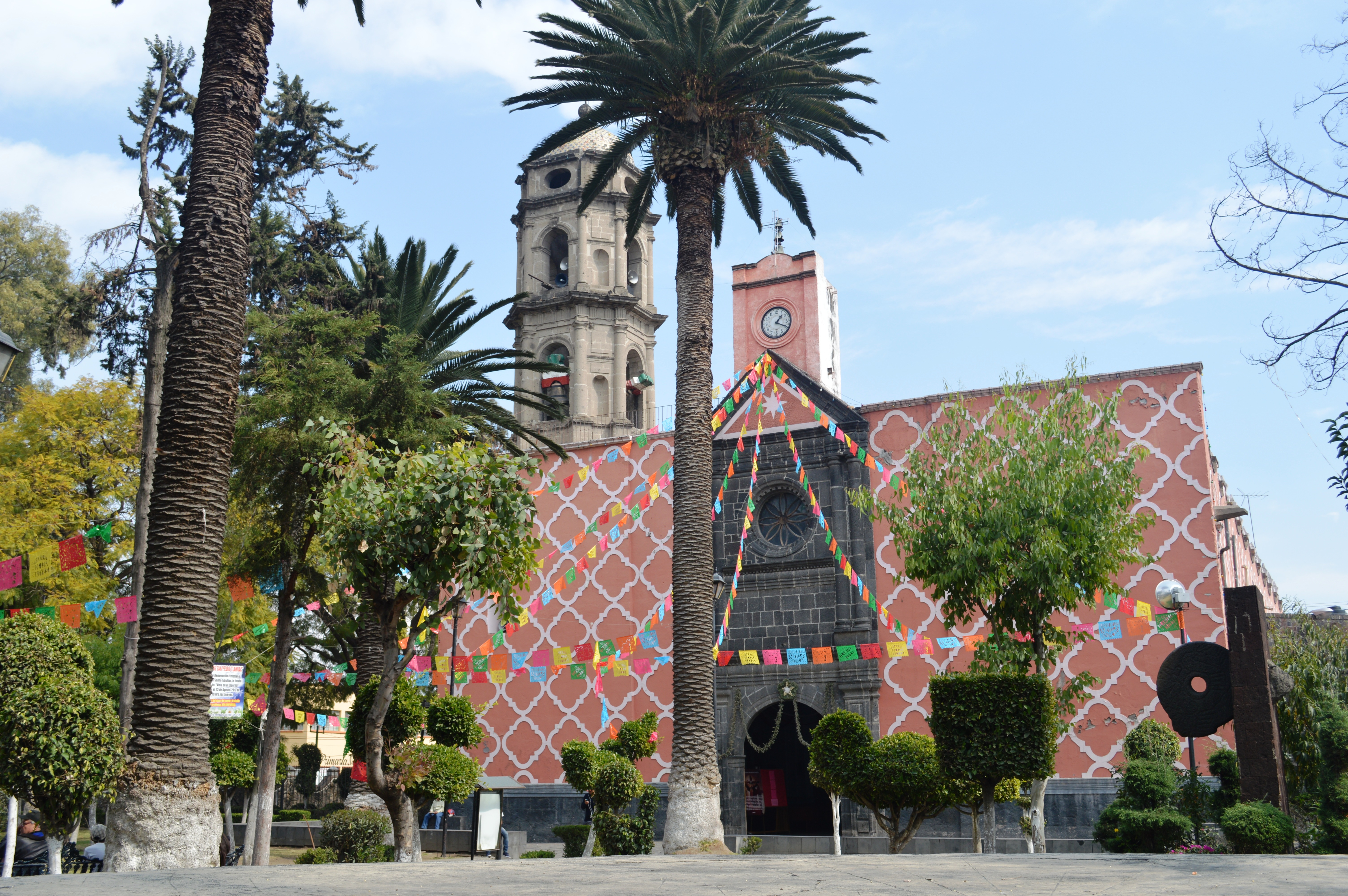 Atrium and facade of the parish of San Pedro Tlahuac, Mexico City